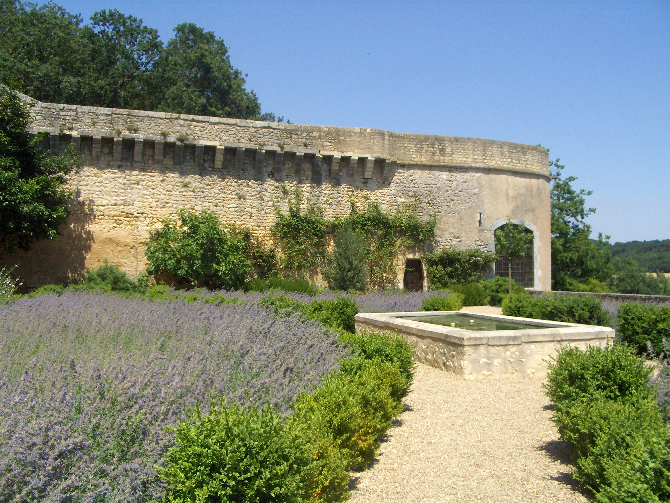 Chapel Tower. View from the Tournois Terrace. Touffou Castle.